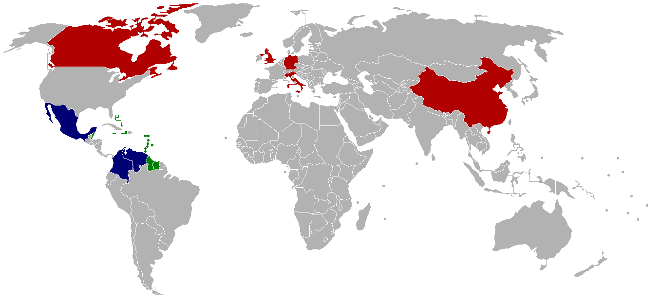 map of Caribbean Development Bank members (Regional members in green, other regional members in blue, non-regional members in red; based on Image:No colonies blank world map.png